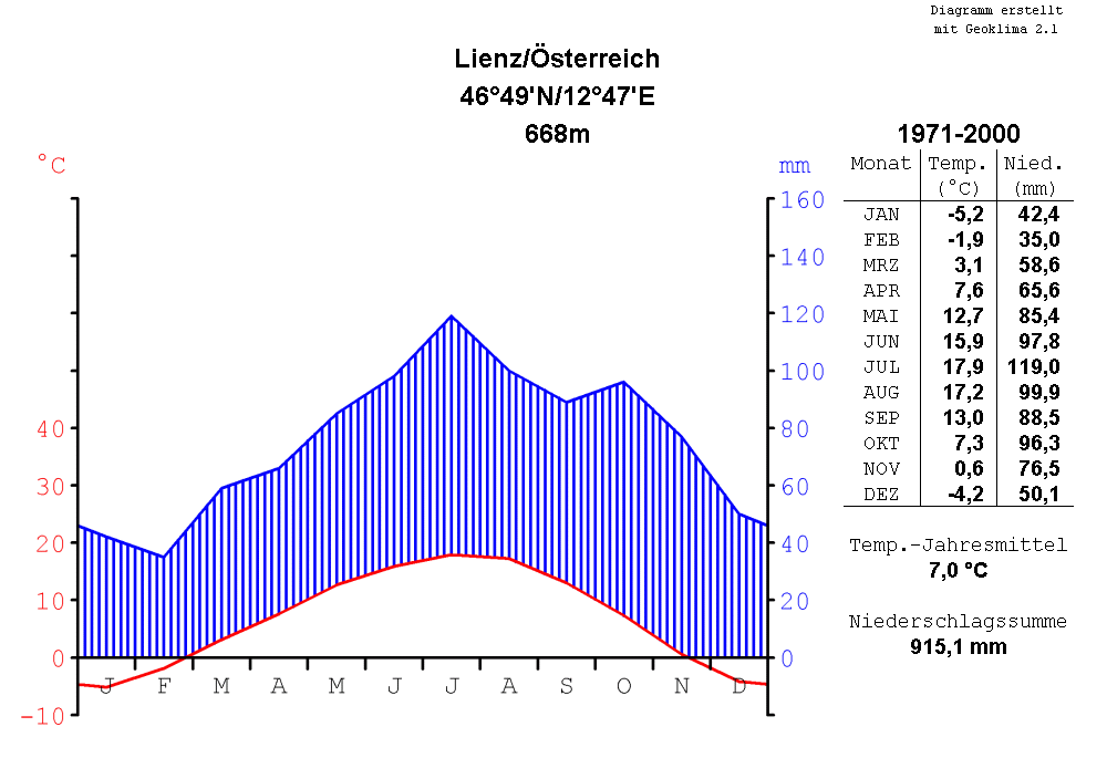 climate chart of Lienz, Austria, for the period of time from 1971 to 2000, in the format by Walter and Lieth, metric, °Celsius and millimeters, chart made with Geoklima 2.1, label in German